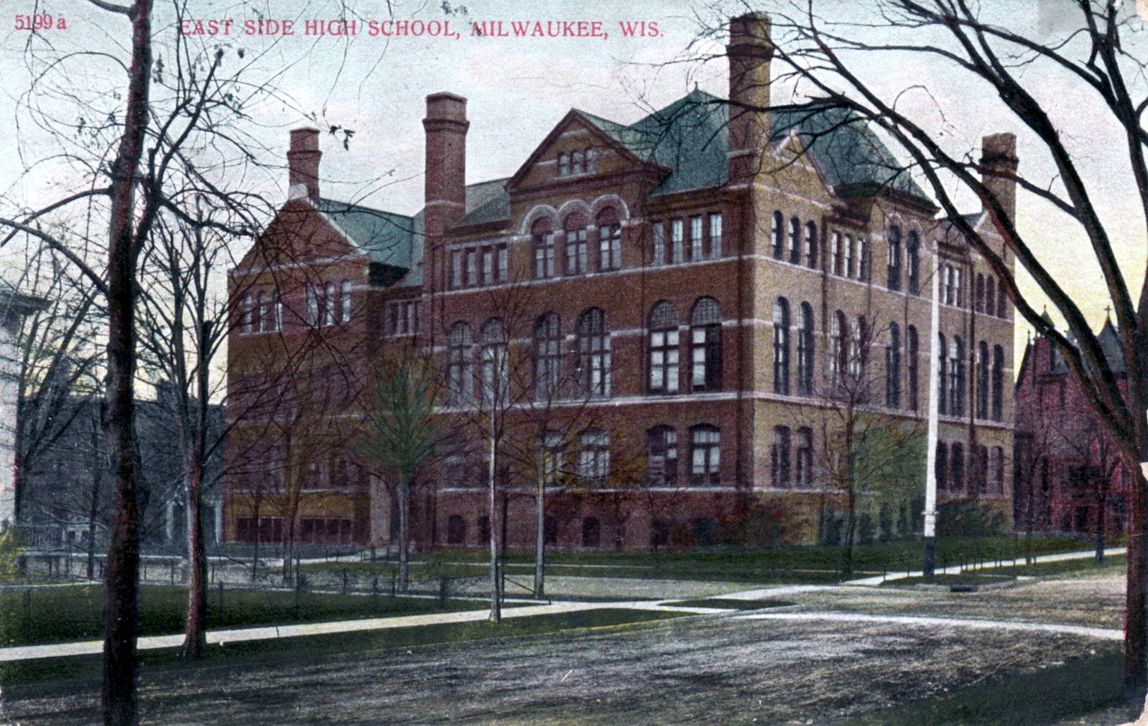 East Side High School, Milwaukee, Wisconsin, postcard - MADE IN GERMANY for A. C. Bosselman & Co, New York - Note: This postcard is cancelled with the mailing date September 12, 1908